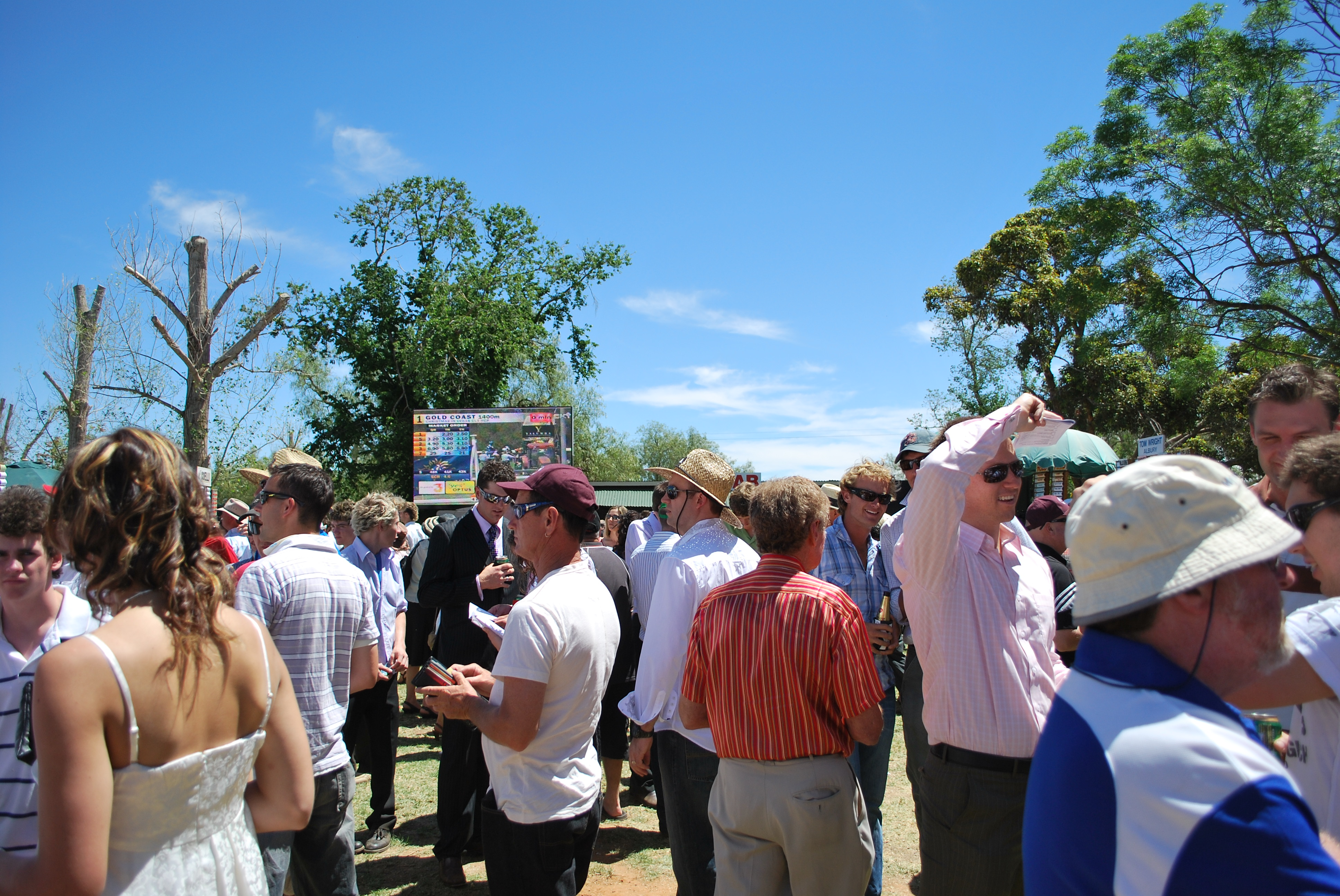 The betting ring at the 2008 Berrigan Cup meeting in Berrigan, New South Wales